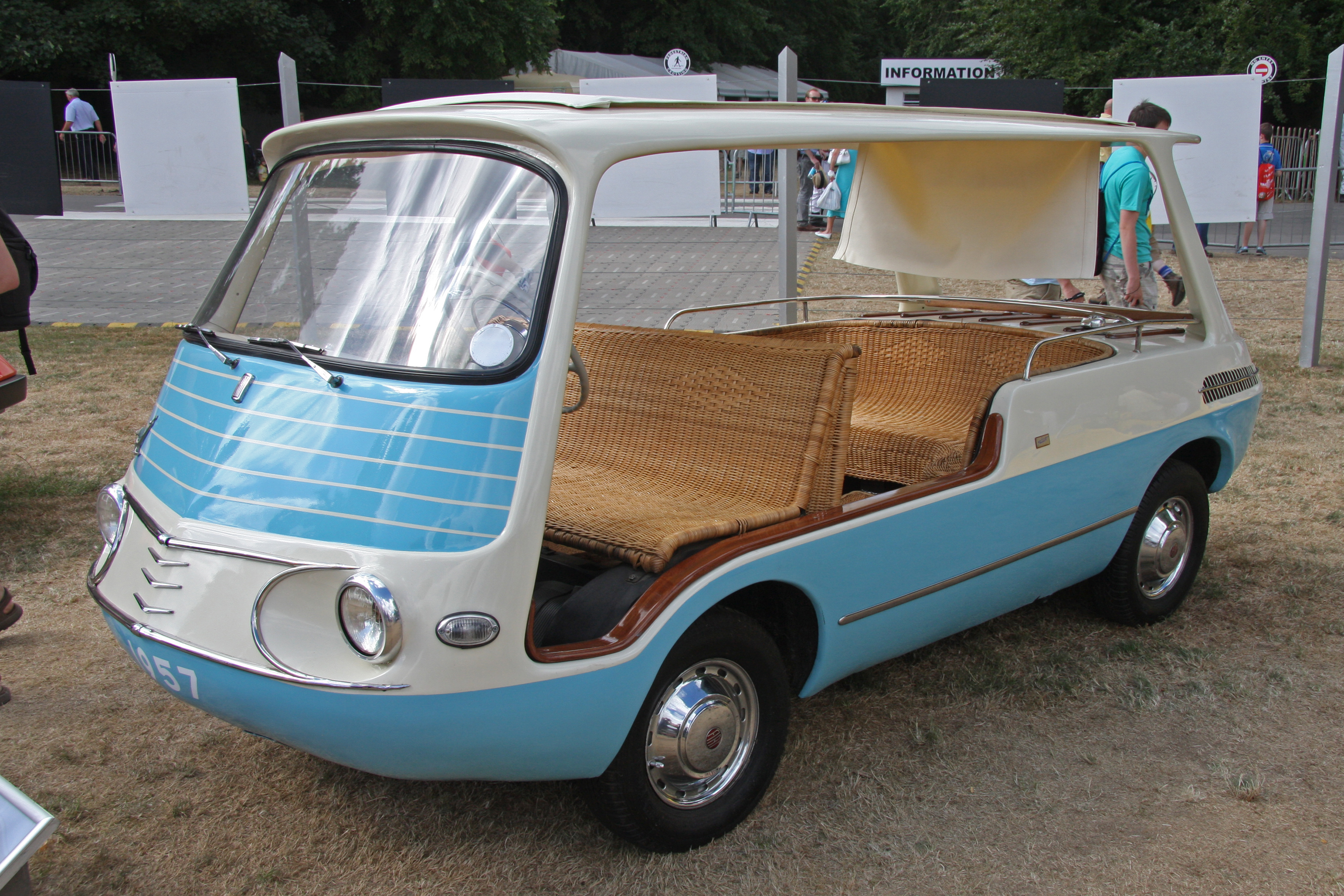 Fissore Marinella the 1957 prototype designed by Giovanni Michelotti on a Fiat Multipla 600 .